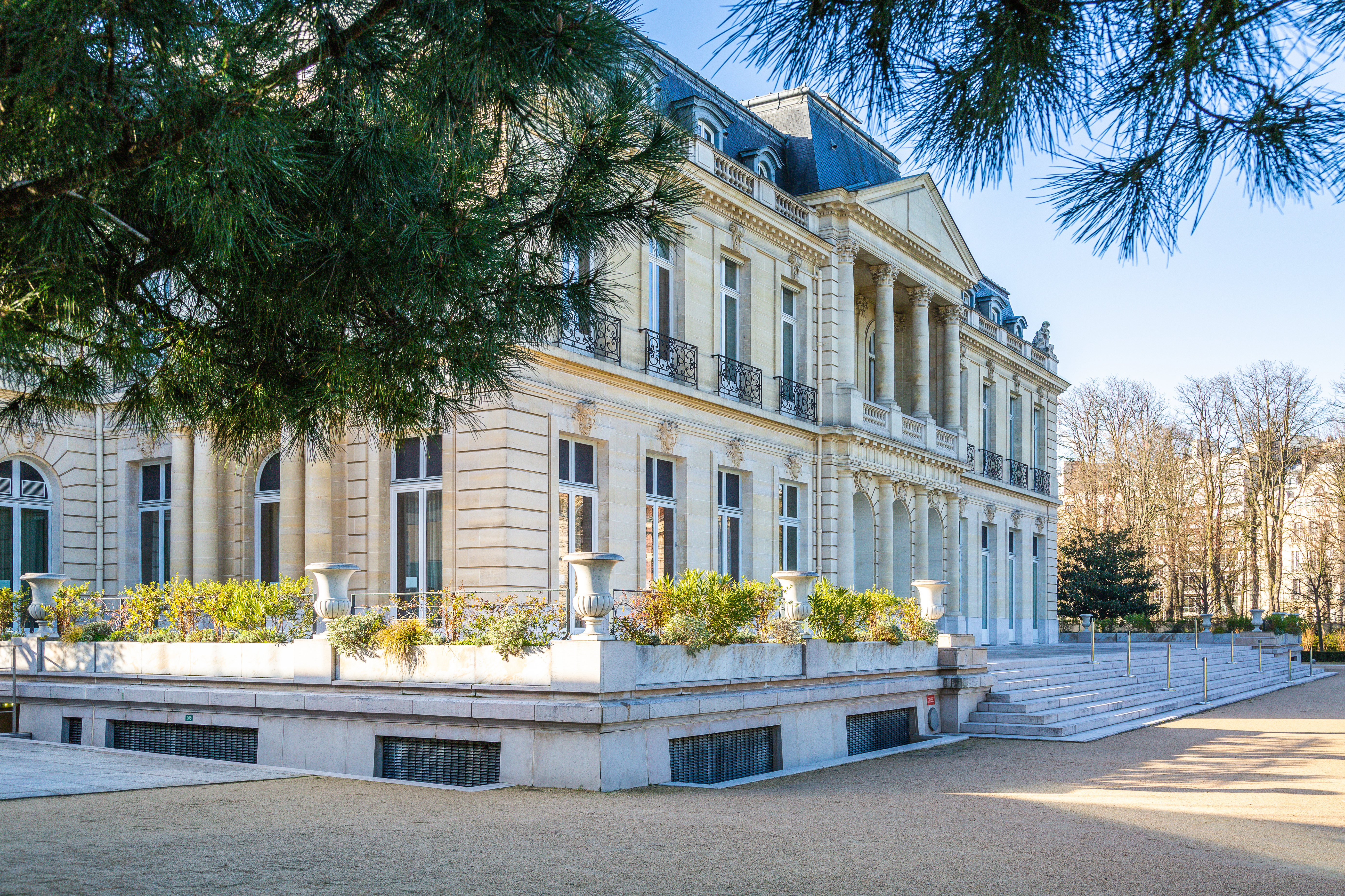 Château de la Muette, view from the park, Paris, France.